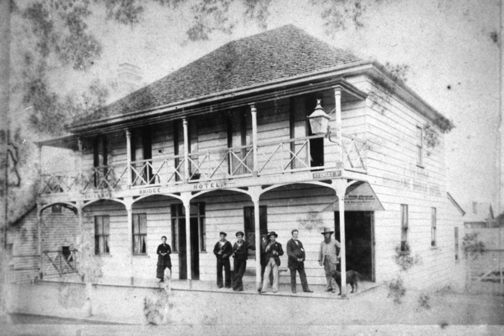 Brisbane Bridge Hotel, Brisbane, ca. 1878. Erected on the south side of Stanley Street, between Melbourne Street and Russell Street, Brisbane. The hotel was built for Samuel Aburnethy in 1867. When this photograph was taken, John Graham, second from right, was the licensee. In 1888 he erected the palatial Graham's Hotel beside this building. (Description supplied with photograph).